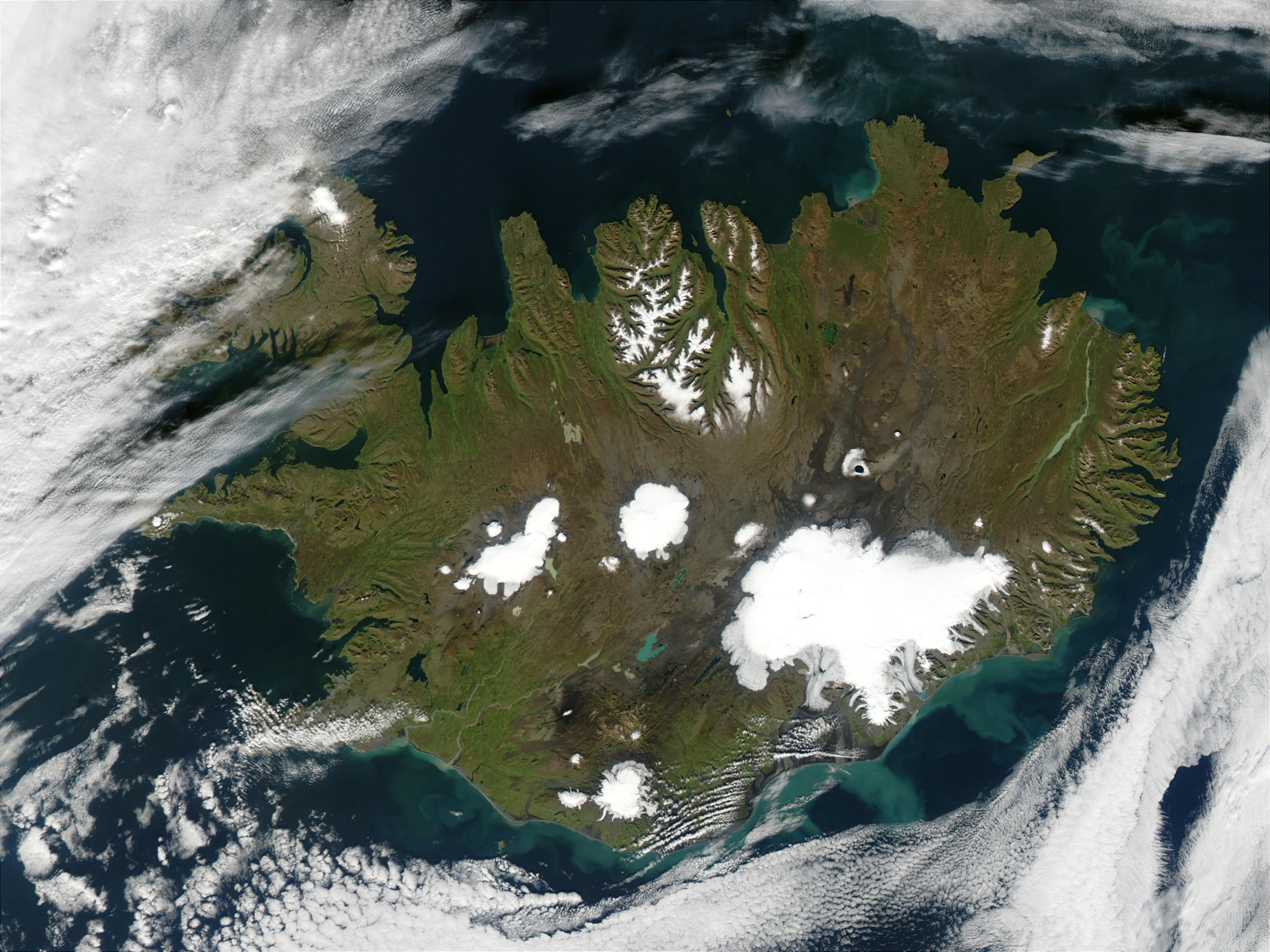 Summer is winding to a close on September 9, 2002, but even Iceland is still showing some summer color, its perimeter tinged with green, while its large permanent ice caps stand out brightly against the volcanic rock surrounding them. The largest ice cap, Vatnajokull, actually rests on top of three active volcanoes. The heat from these volcanoes causes the underside of the ice cap to melt, slowly filling the calderas. Eventually the caldera spills over and releases a torrent of water known as a glacial melt flood. This volcanic activity happens because a tectonic boundary runs roughly northeast-southwest through the island country, and the two plates are pulling away from each other, causing magma to well up from deep in the Earth. By mid-October, the northern part of the island is snow covered, and by late October, the entire island is wearing its wintry blanket. The brightly colored lakes and coastal waters are the result of very fine, and highly reflective sediment that is ground to bits by the immense weight of the glaciers and washed out with glacial runoff. These images were captured by the Terra and Aqua satellites.